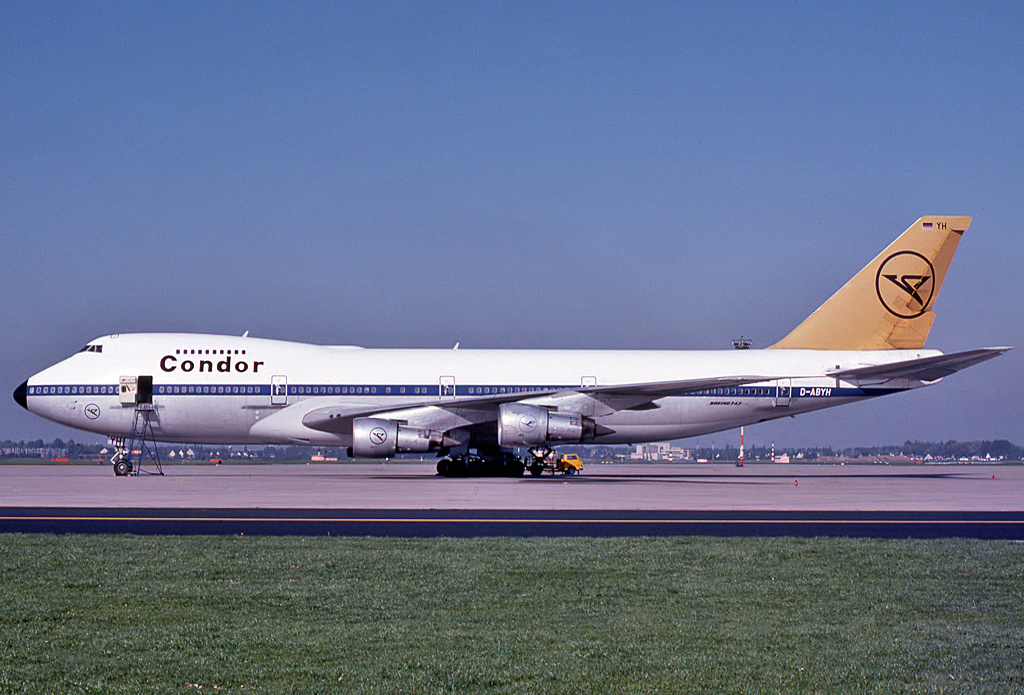 Condor Boeing 747-230B (D-ABYH) at Dusseldorf Airport